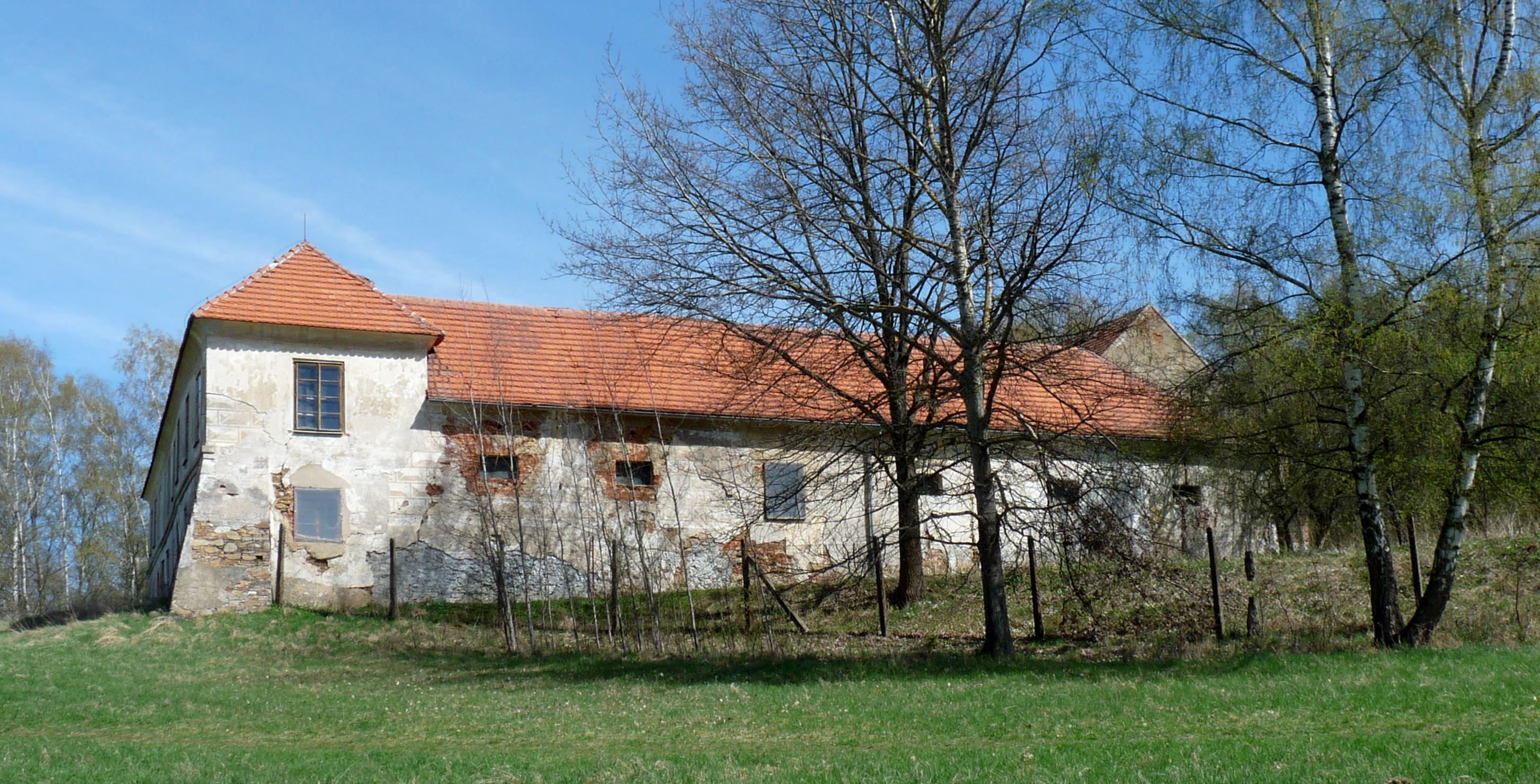 Lustenek, an estate near the town of Rudolfov, south Bohemia, Czech Republic, as seen from the south.